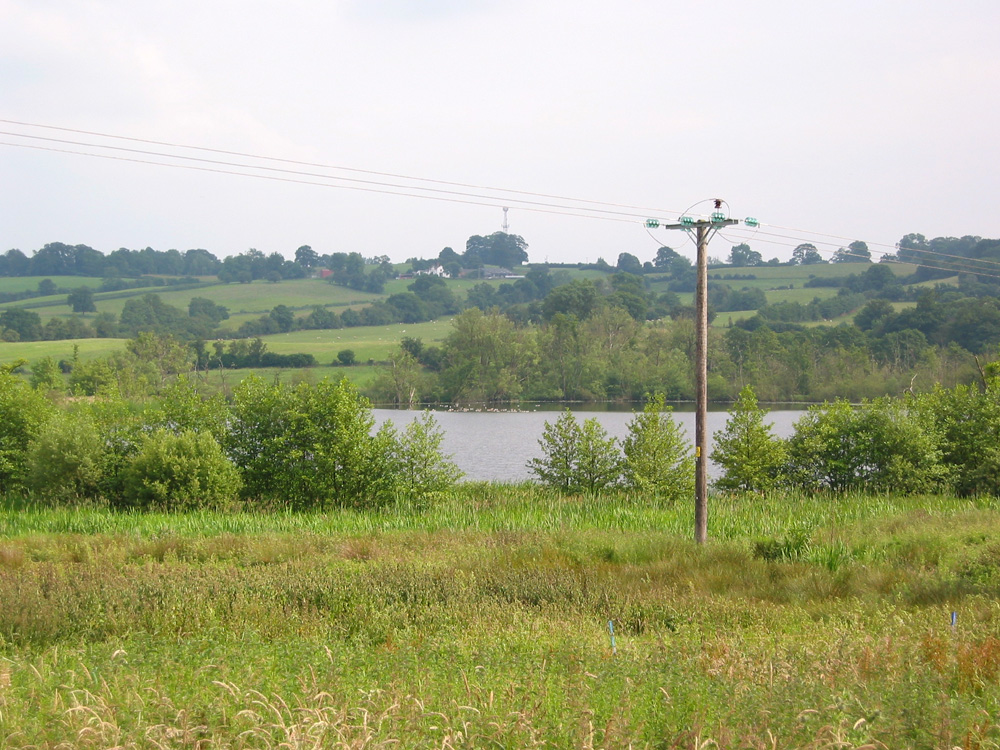 Quoisley Big Mere, near Marbury, Cheshire, viewed from the Mere Farm track